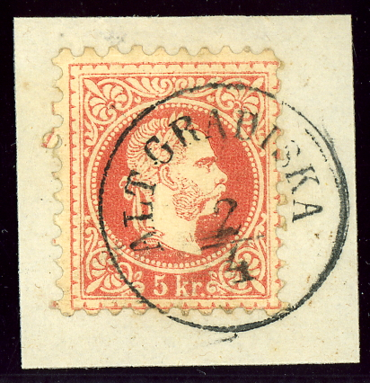 Austrian KK 5 kreuzer stamp cancelled ALT GRADISKA (Stara Gradiška, Military Border, Croatia)